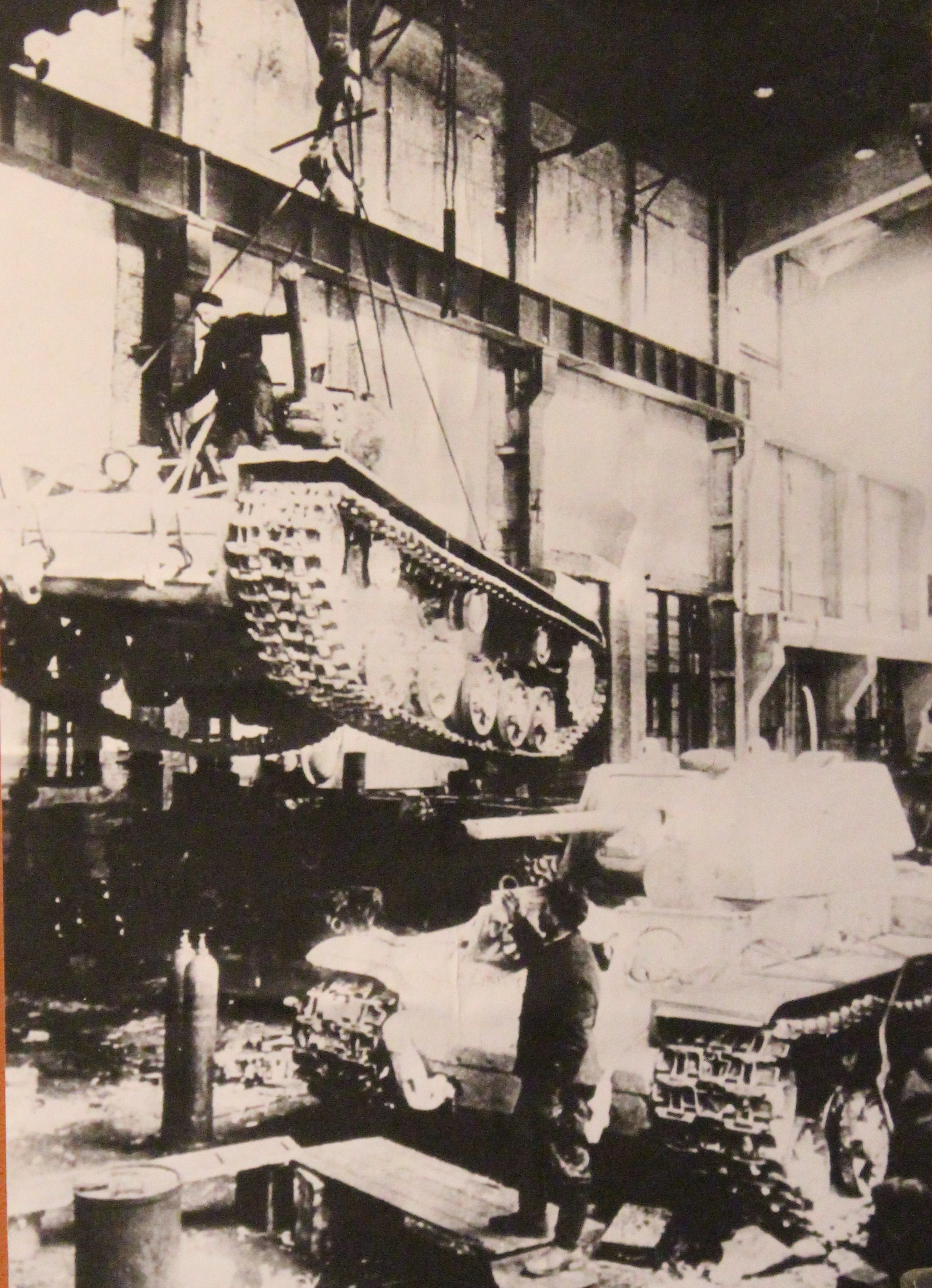 State Memorial Museum of Defence and Siege of Leningrad, Saint Petersburg